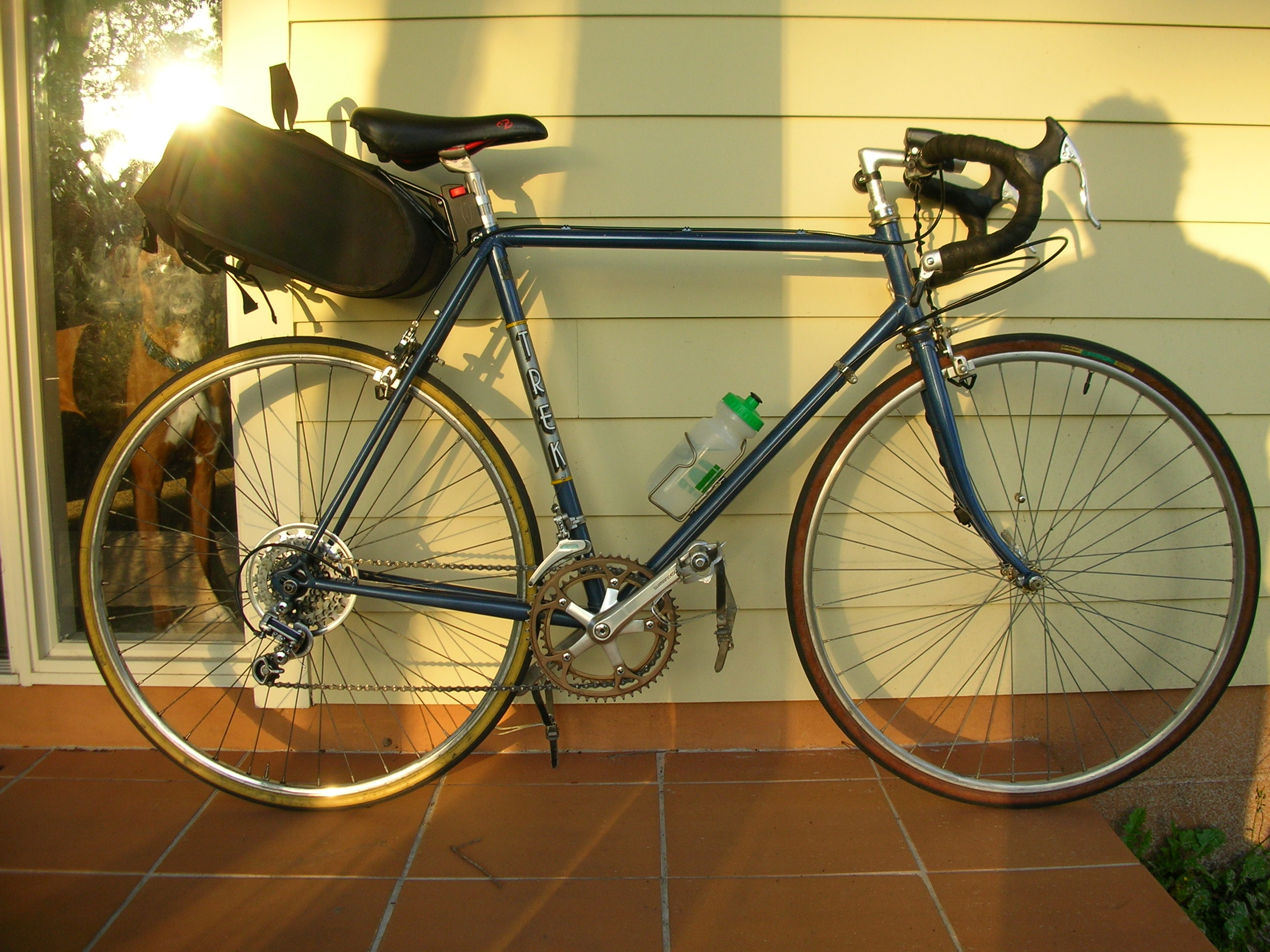 I got this bike over a month ago and I absolutely adore it. I still don't feel this photo does it justice but I really wanted to show you how fun it is. My first road bike, Clarence is a 1983 Lugged 531 Steel Trek. It is super comfortable and is the bike I will ride the 75 mile MS ride in May. (New tires are in the mail! Yay!)